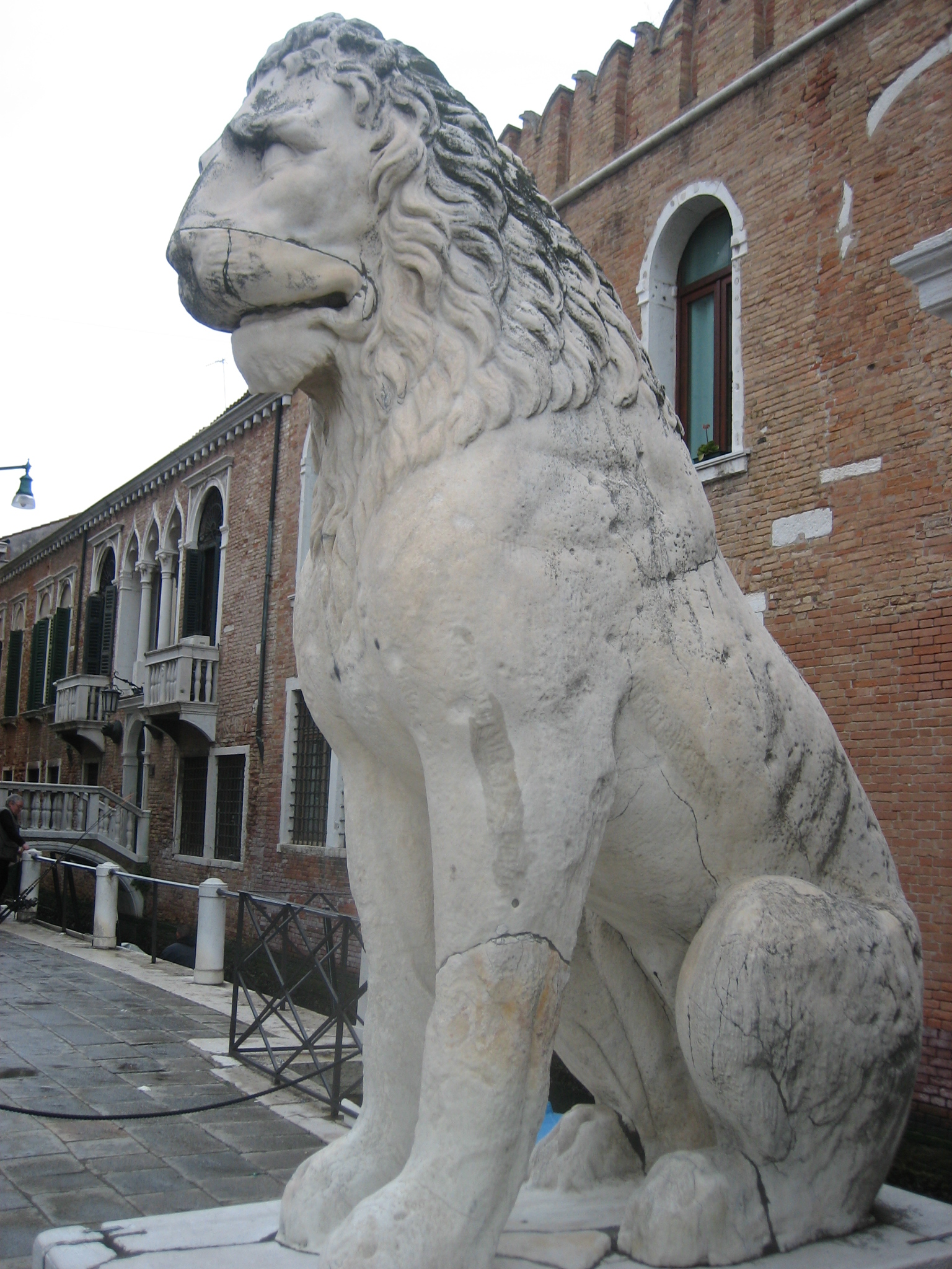 The lion standing at the left side of the monumental entrance of the Arsenale in Venice. It is an Ancient Greek sculpture, originally at the Piraeus in Athens, brought to Venice by Francesco Morosini, who conquered the Peloponnesus. The Lion of Piraeus (copy) in Piraeus, Greece.